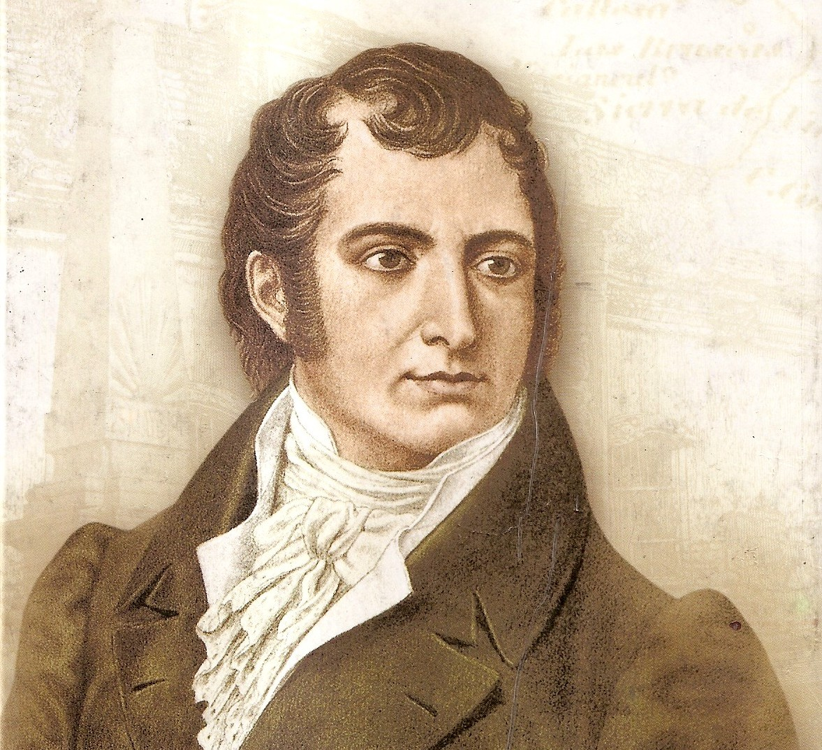 Juan José Castelli, head of the May Revolution and member of the Primera Junta.